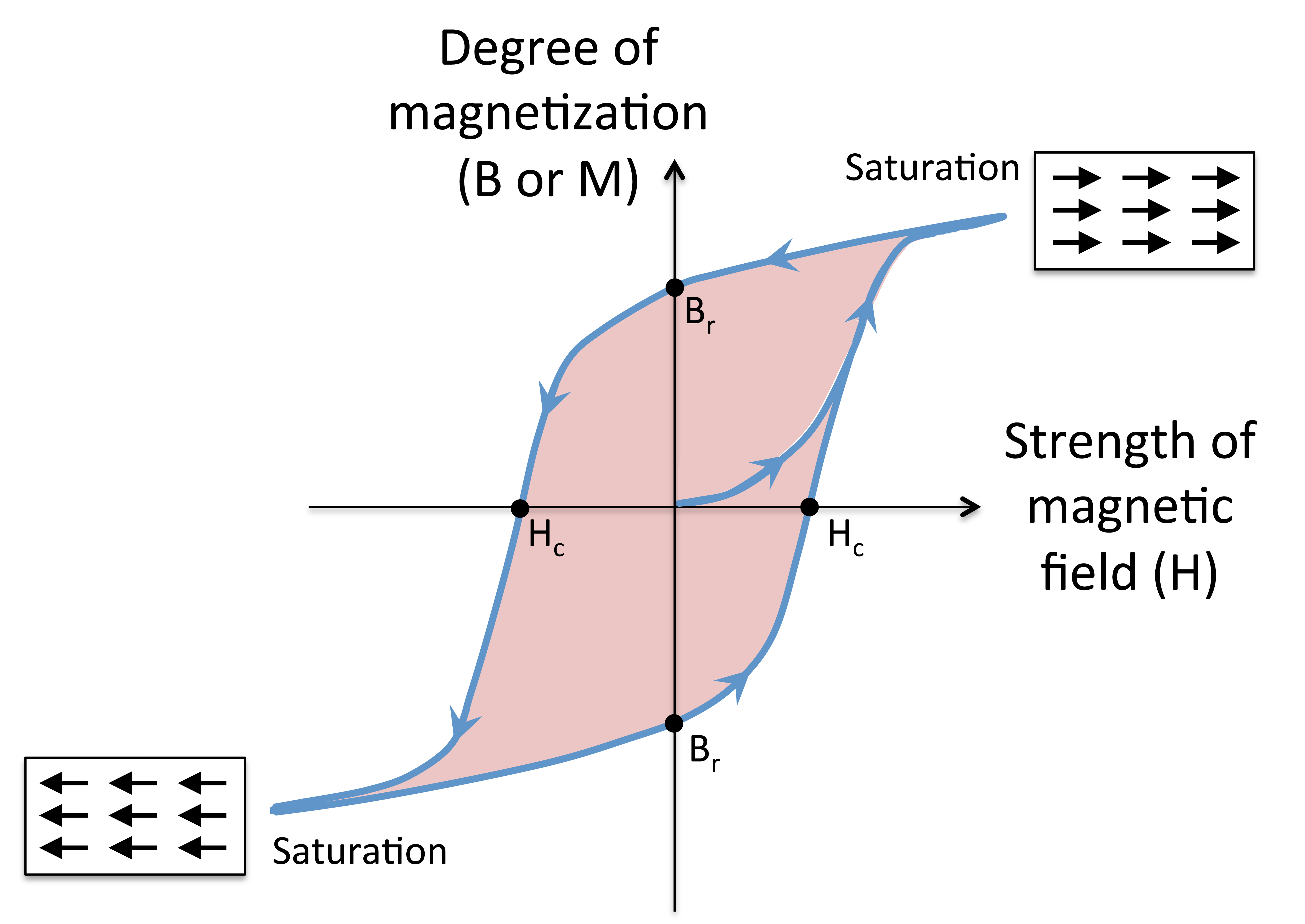 Hysteresis loop for a ferro- or ferrimagnet